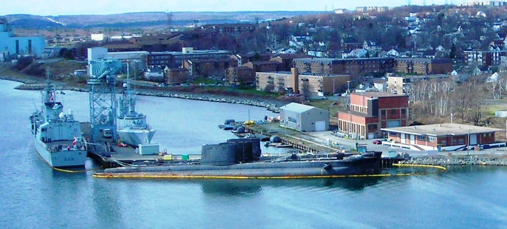 In the center: three Canadian Oberon class submarines laid up at a jetty on the Dartmouth side of the Halifax Harbour, opposite the CFB Halifax. Most likely one of them is the Ojibwa and the others would be the Okanagan and the late training boat Olympus.